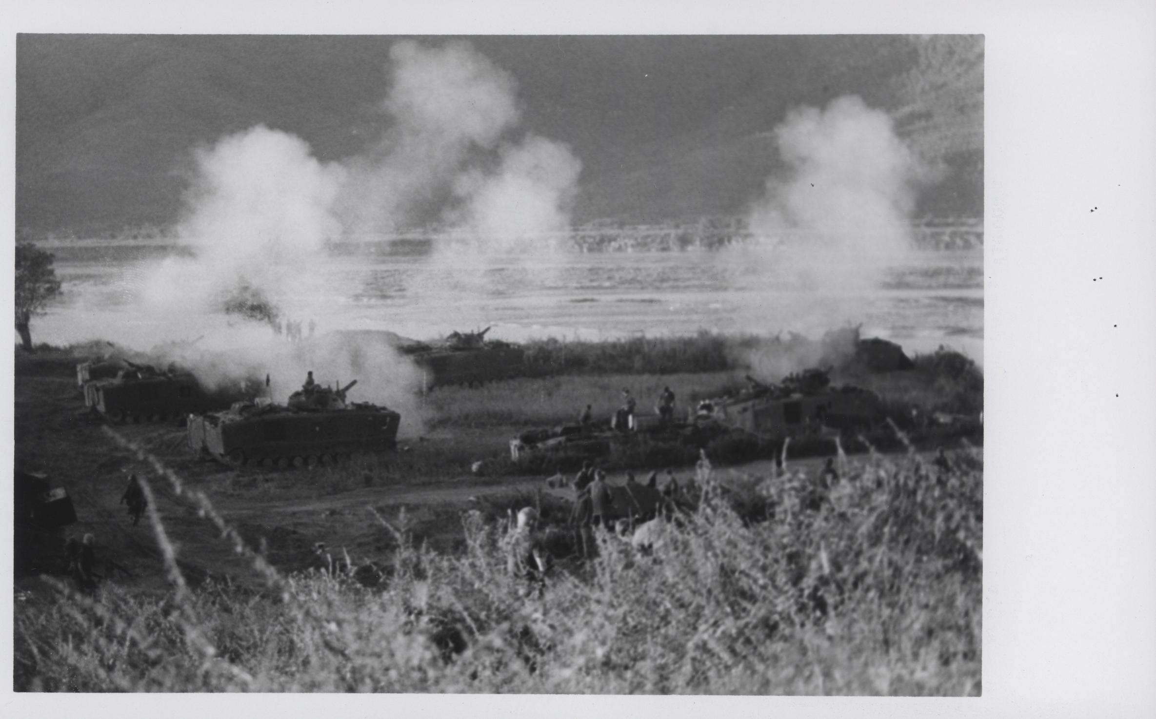 "Mobile Artillery: Marine Armored Amphibian tractors fire their 105mm howitzers to support of Operation Maui Peak 30 miles southwest of here. Five of the ‘tracs’ fired 3,480 of the 33 pound projectiles at enemy positions during the period October 6-18 (official USMC photo by Gunnery Sergeant Chuck Lane)." From the Jonathan Abel Collection (COLL/3611), Marine Corps Archives & Special Collections. OFFICIAL USMC PHOTOGRAPH